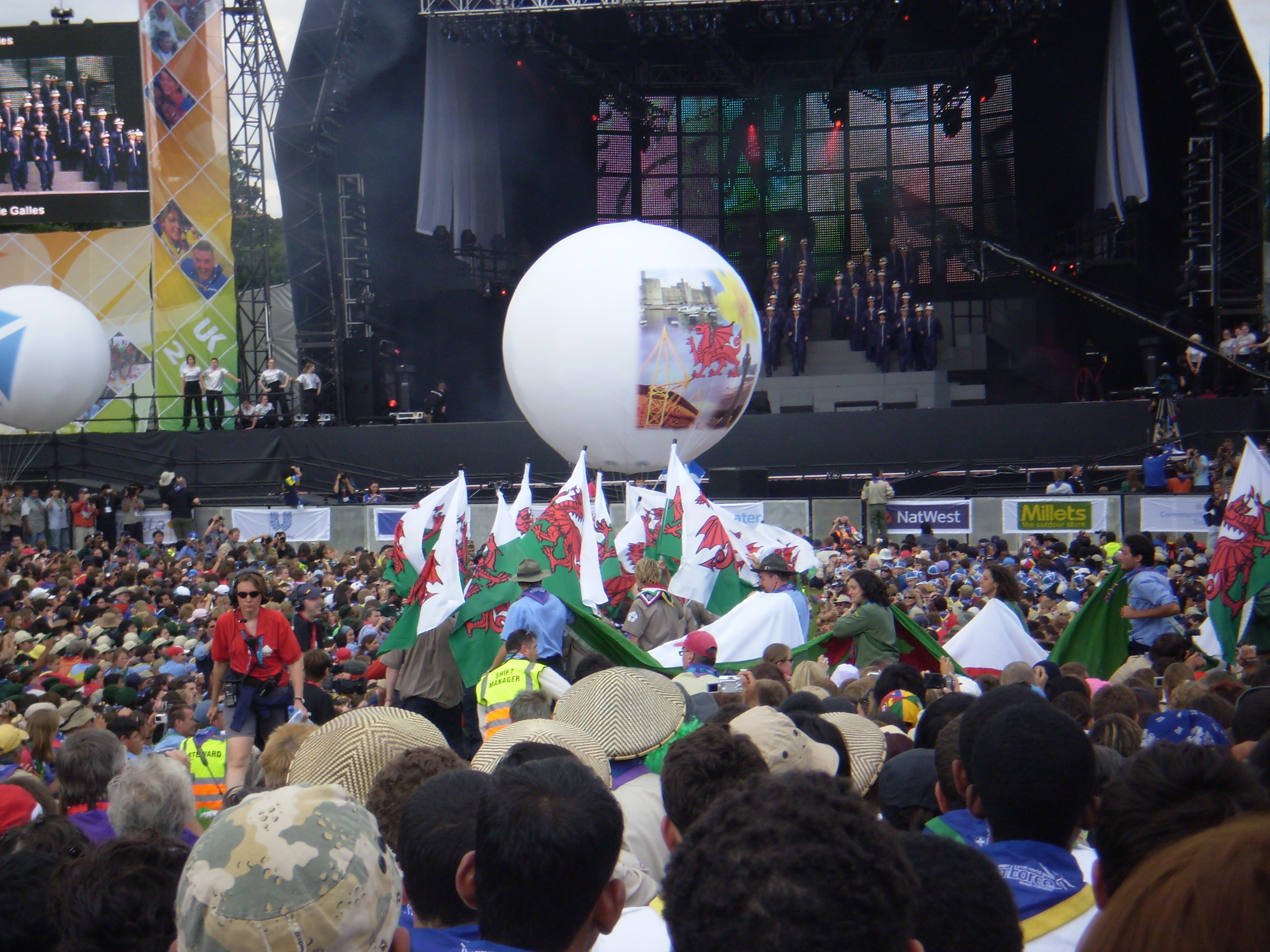 Welsh contingent at the opening ceremony of the 21st World Scout Jamboree